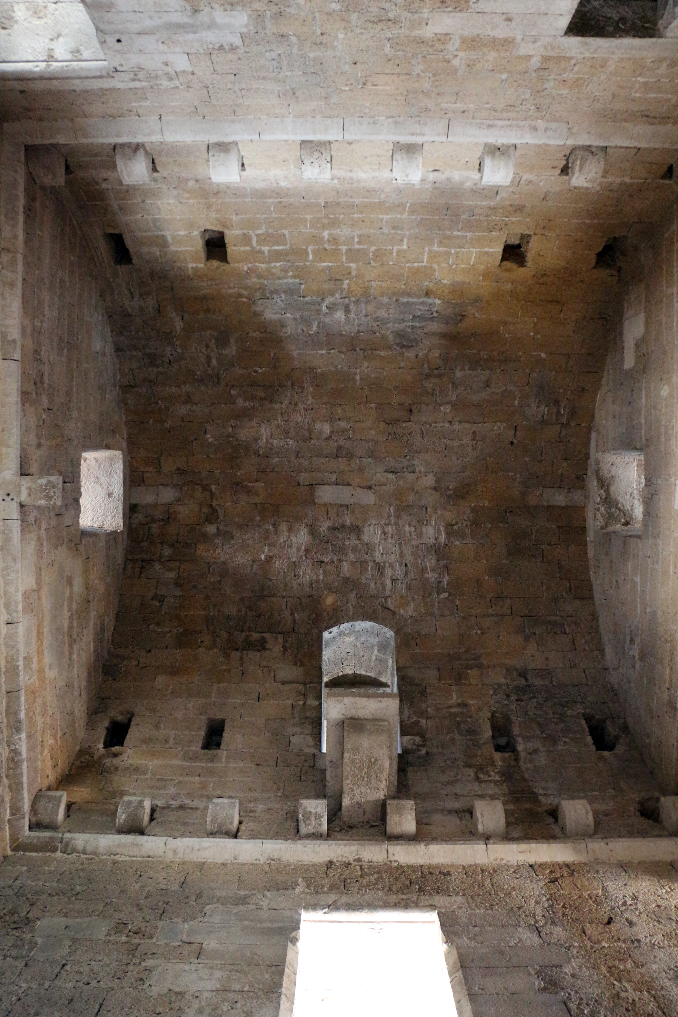 Castello normanno-svevo (Gioia del Colle) - Interior